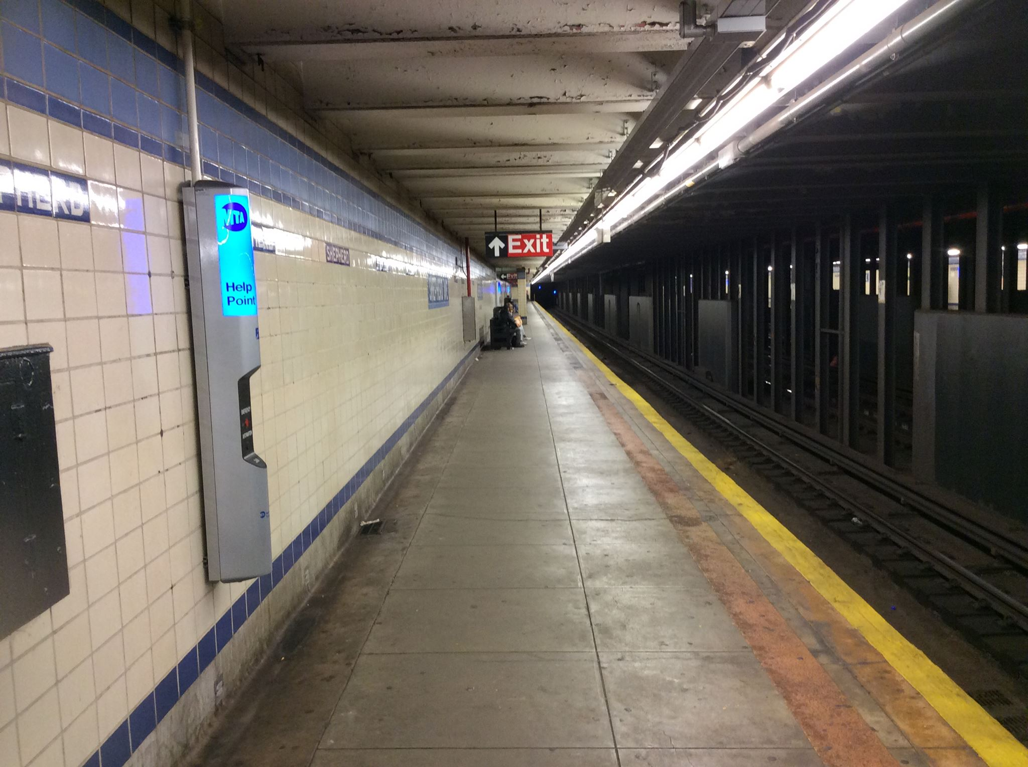 Shepherd Av southbound platform